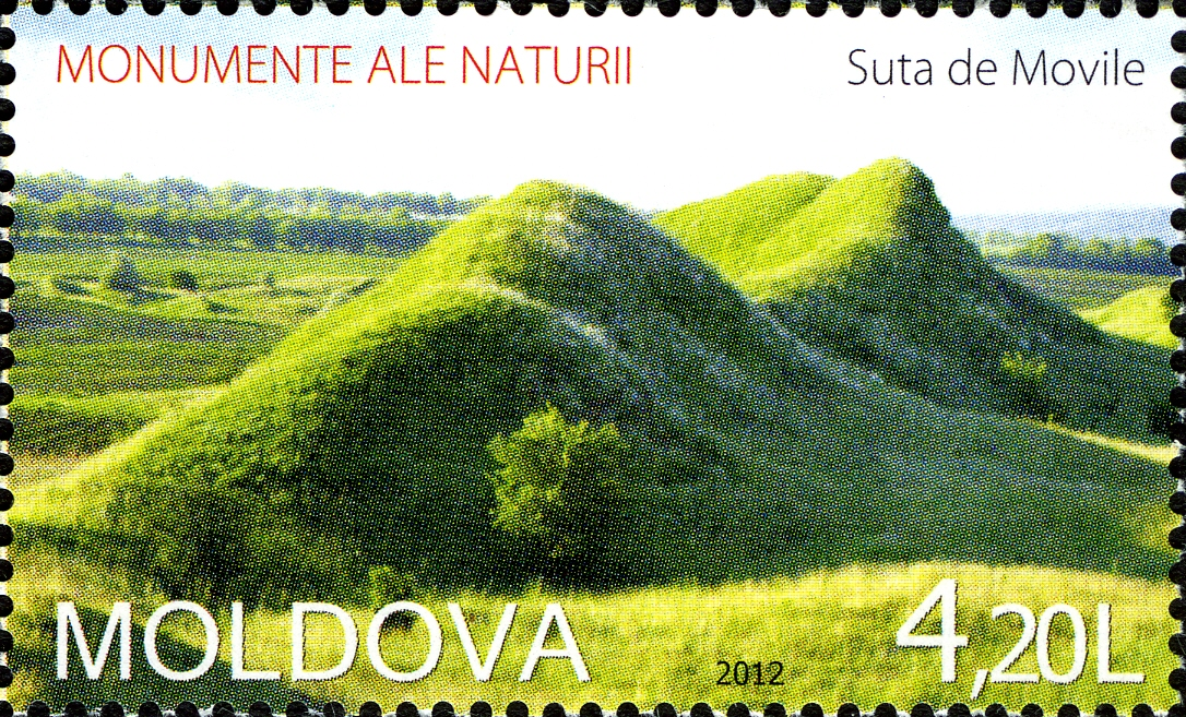 Stamps of Moldova